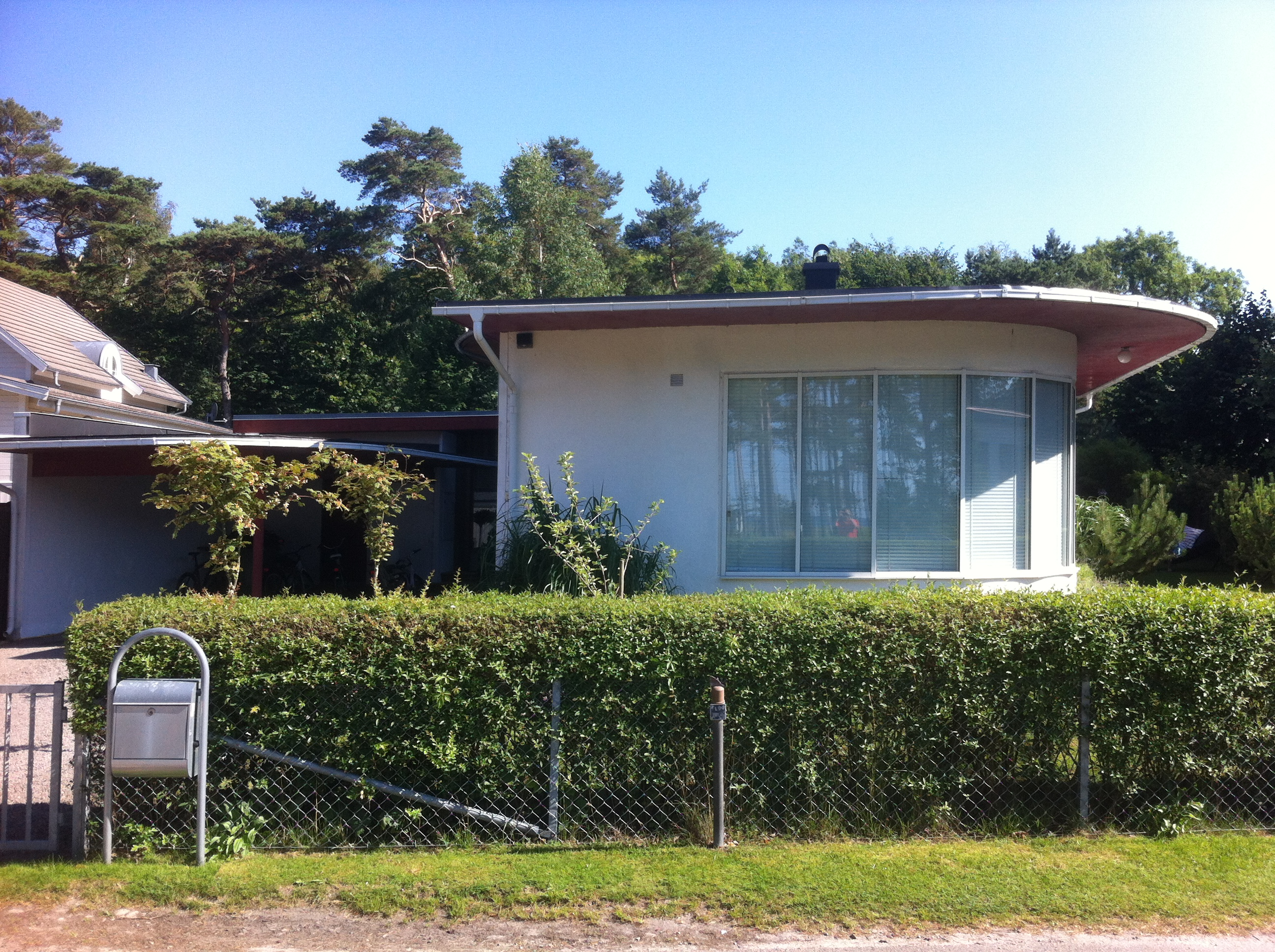 First House in Riviera, Båstad